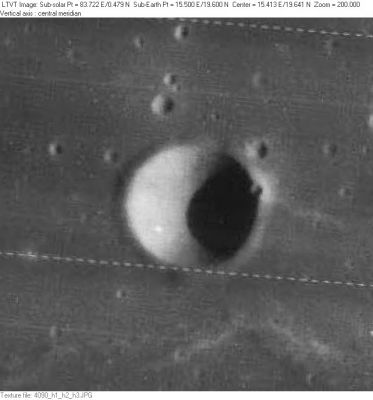 Image LO-IV-090H